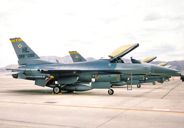 4th Fighter Squadron General Dynamics F-16C Block 40C Fighting Falcon 88-0462 1992 Hill AFB, Utah, 1992